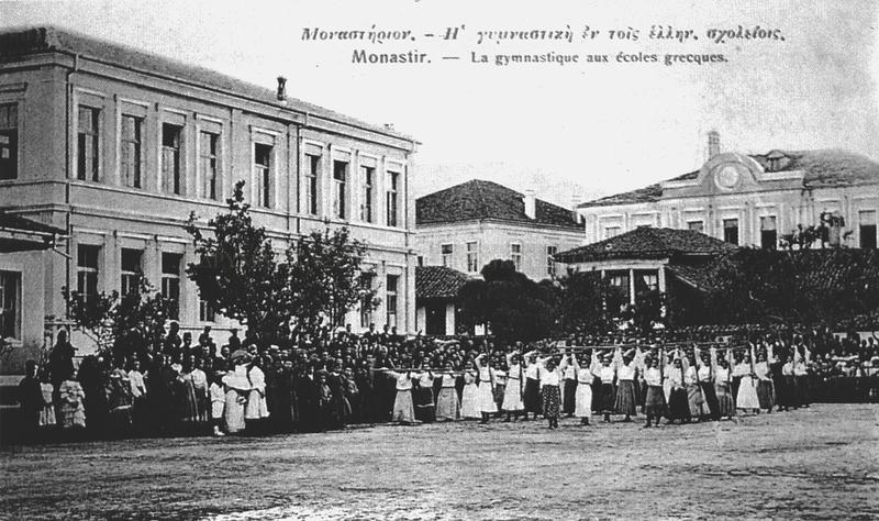 A Greek school of Monastir (modern Bitola) Macedonia early 20th century